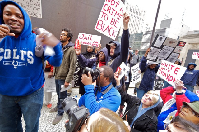 Chicago Protest for Trayvon Martin, Photo by FJJ. Flickr tags: Chicago, Trayvon Martin, police brutality, protest, demonstration, Occupy, racism, stolen lives, genocide, mass incarceration